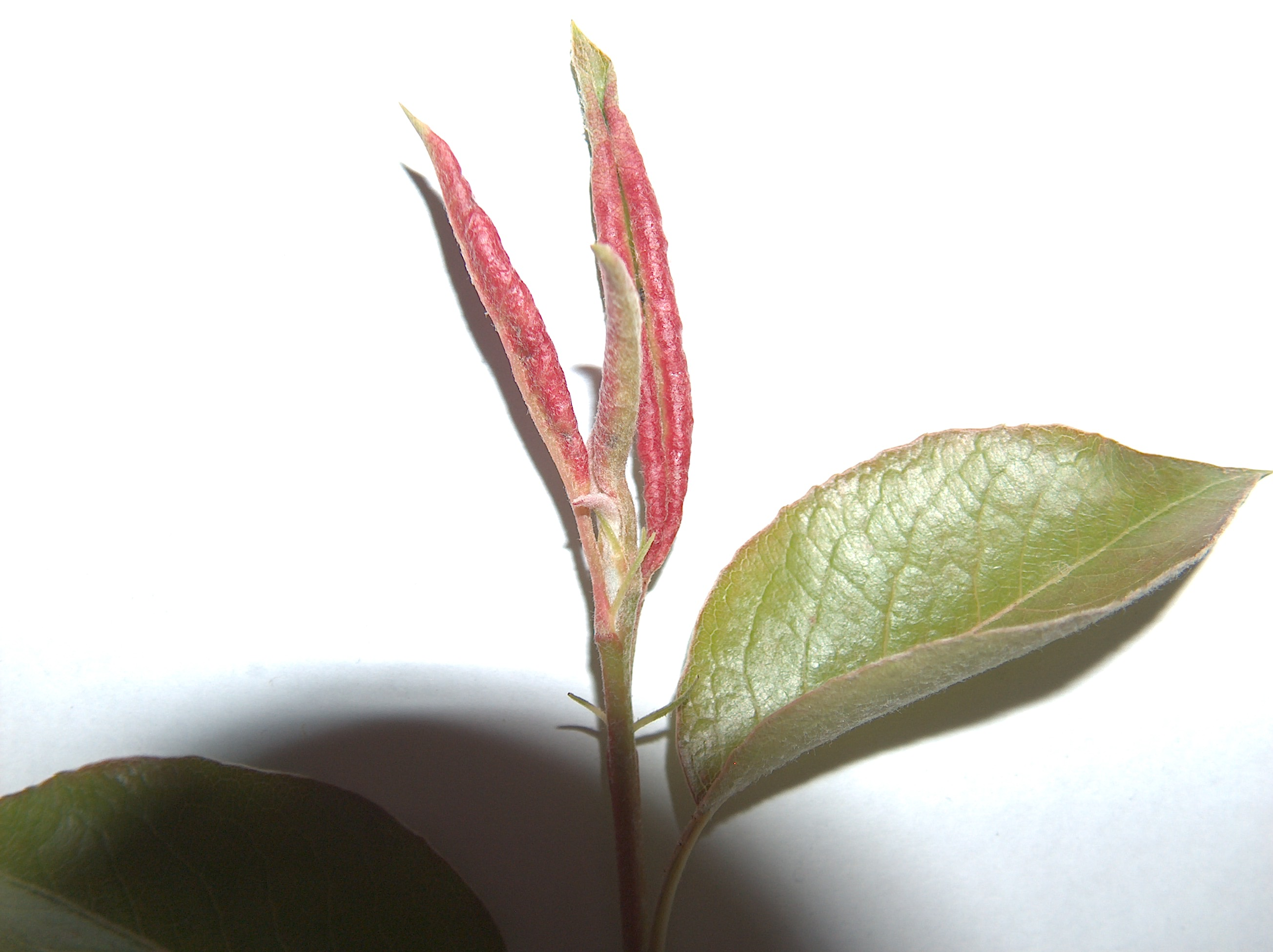 Damage by gall midges (Dasineura pyri) on pear leaves